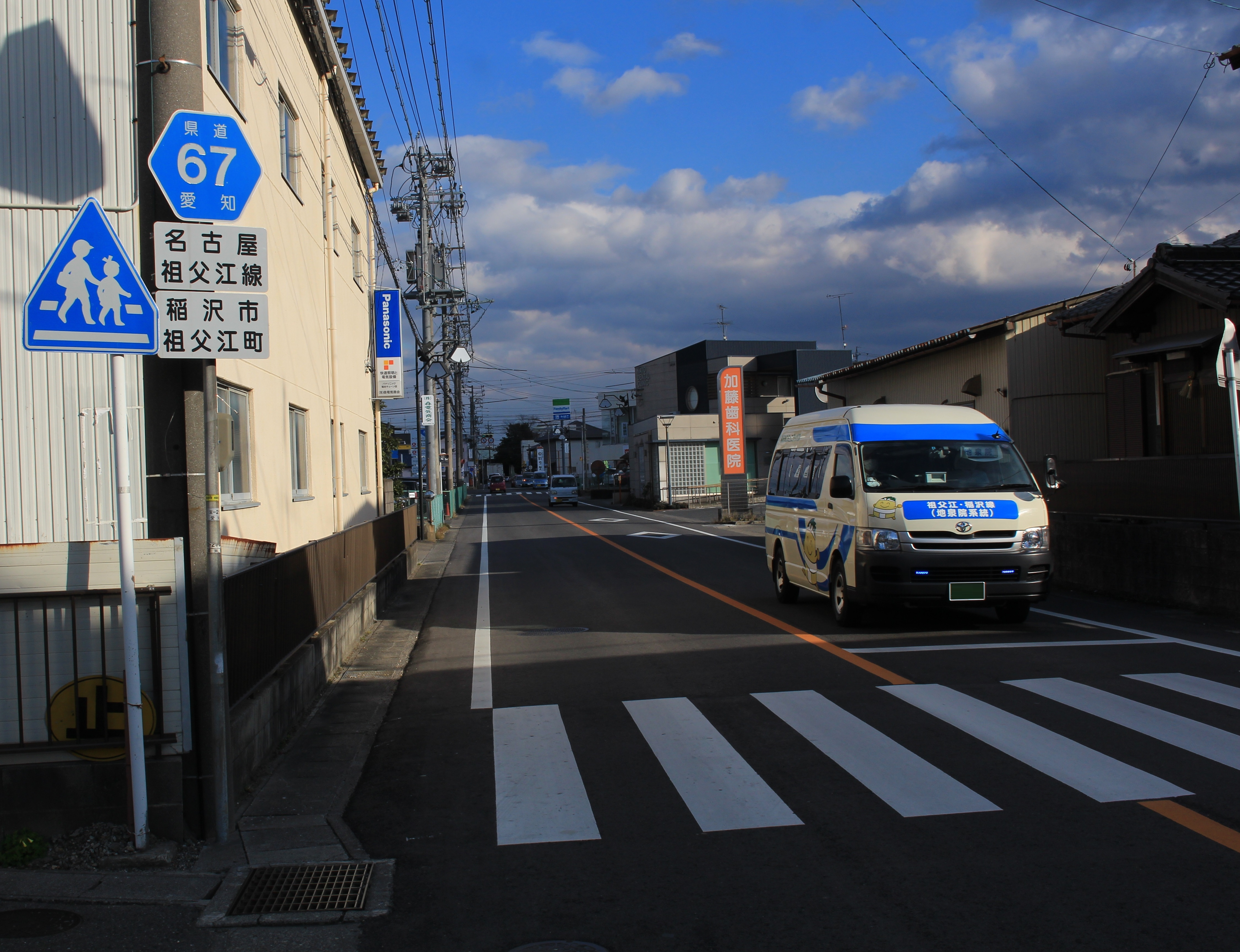 Aichi Prefectural Road Route 67 in Sobue, Inazawa, Aichi prefecture, Japan.